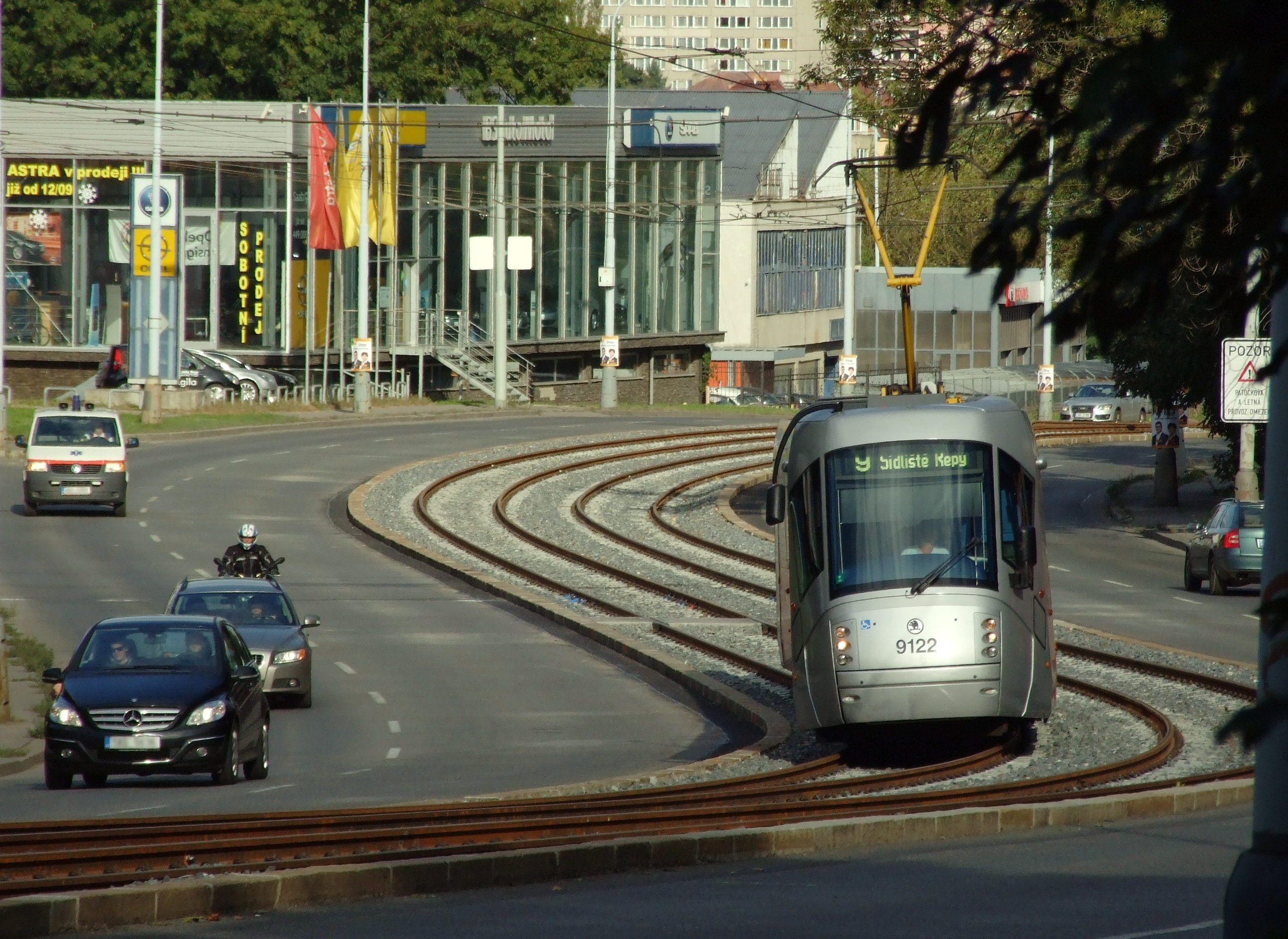 14T tram arriving in Krematorium Motol stop - shortly after the 2 months long reconstruction finished, Prague, CZ